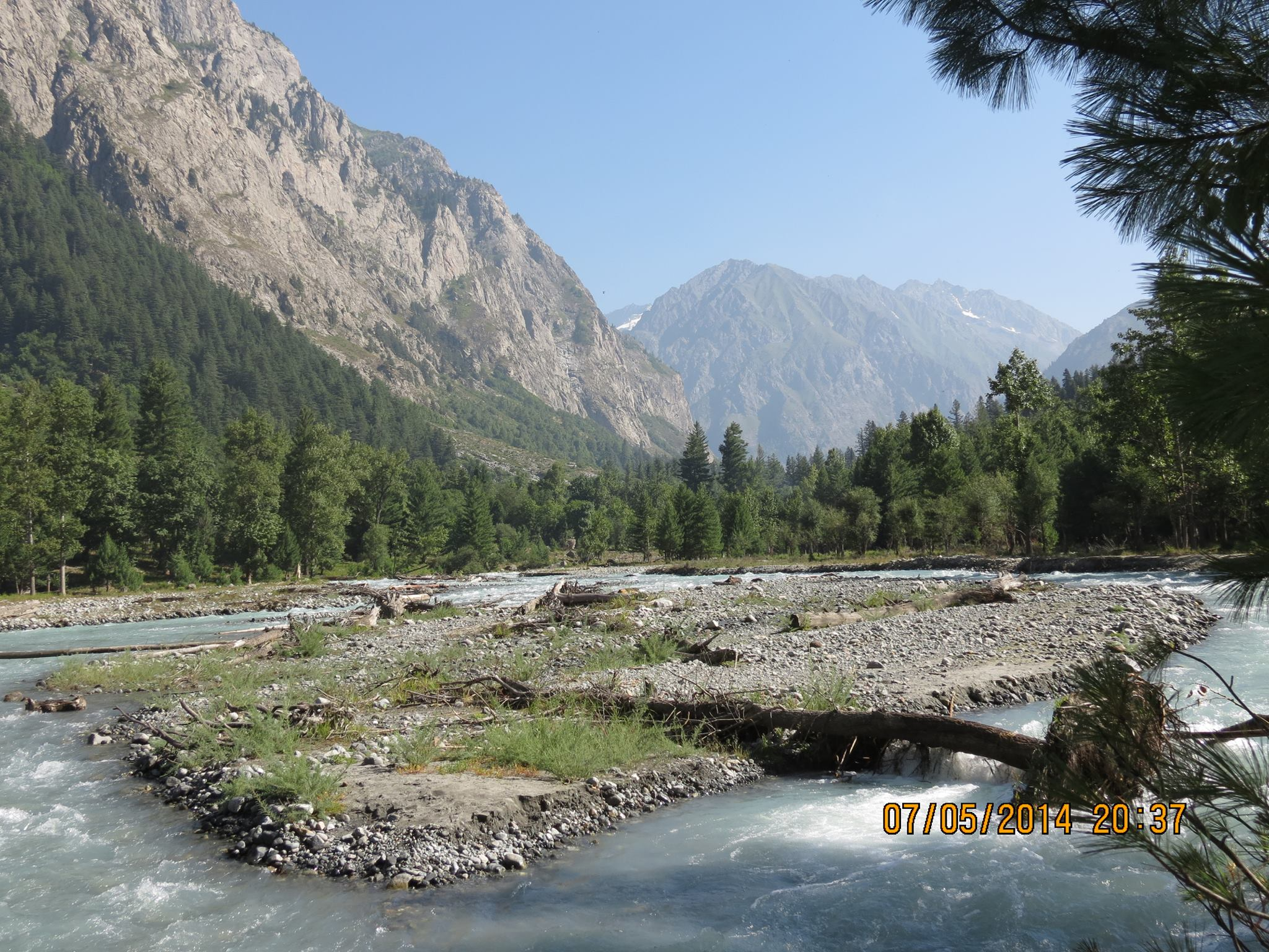 Panjkora River Tormang lower Dir